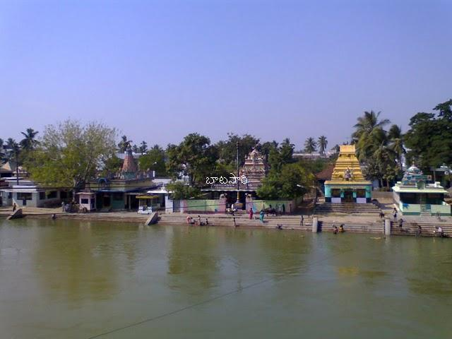 Chinna Kasi revu